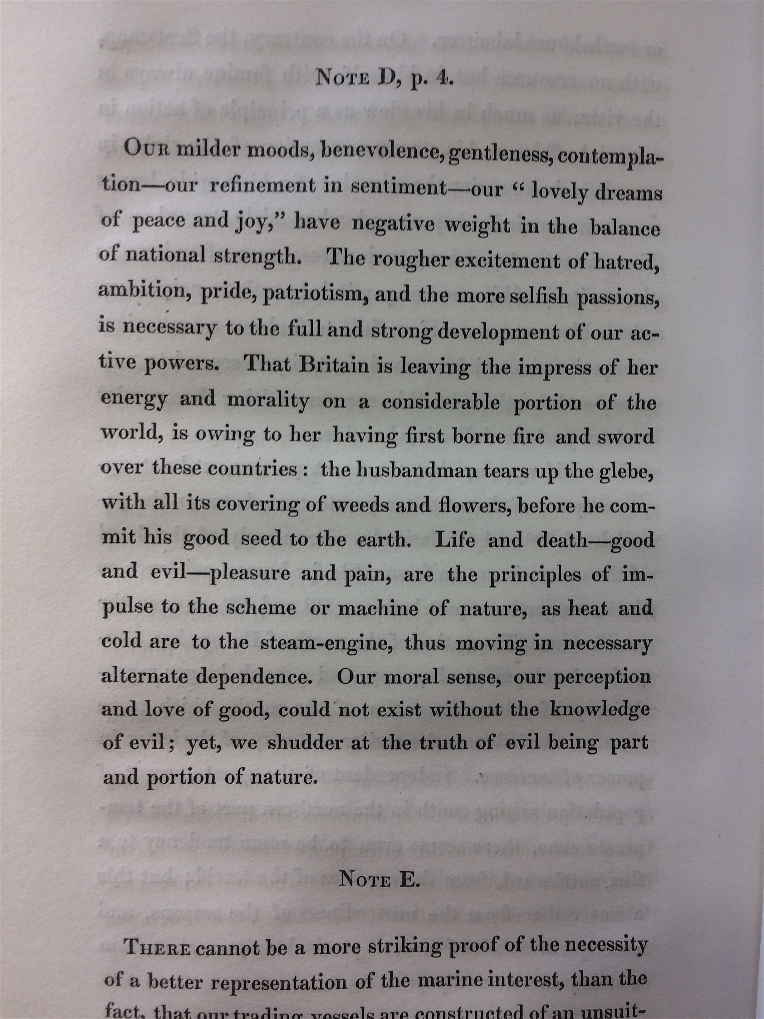 Copy of Matthew (1831) held at National Library of Scotland, in original publisher's boards. Showing appendices, including Note D reference to applicable page were direction was omitted.